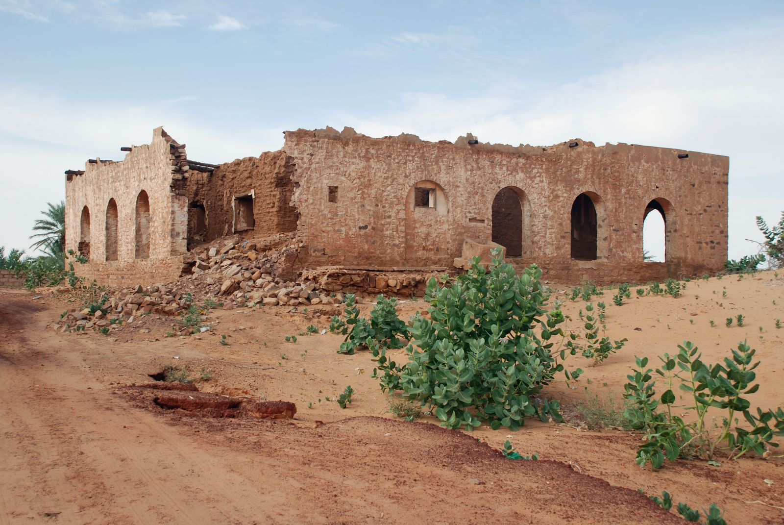 Tidjikja, Mauritania, french colonial building